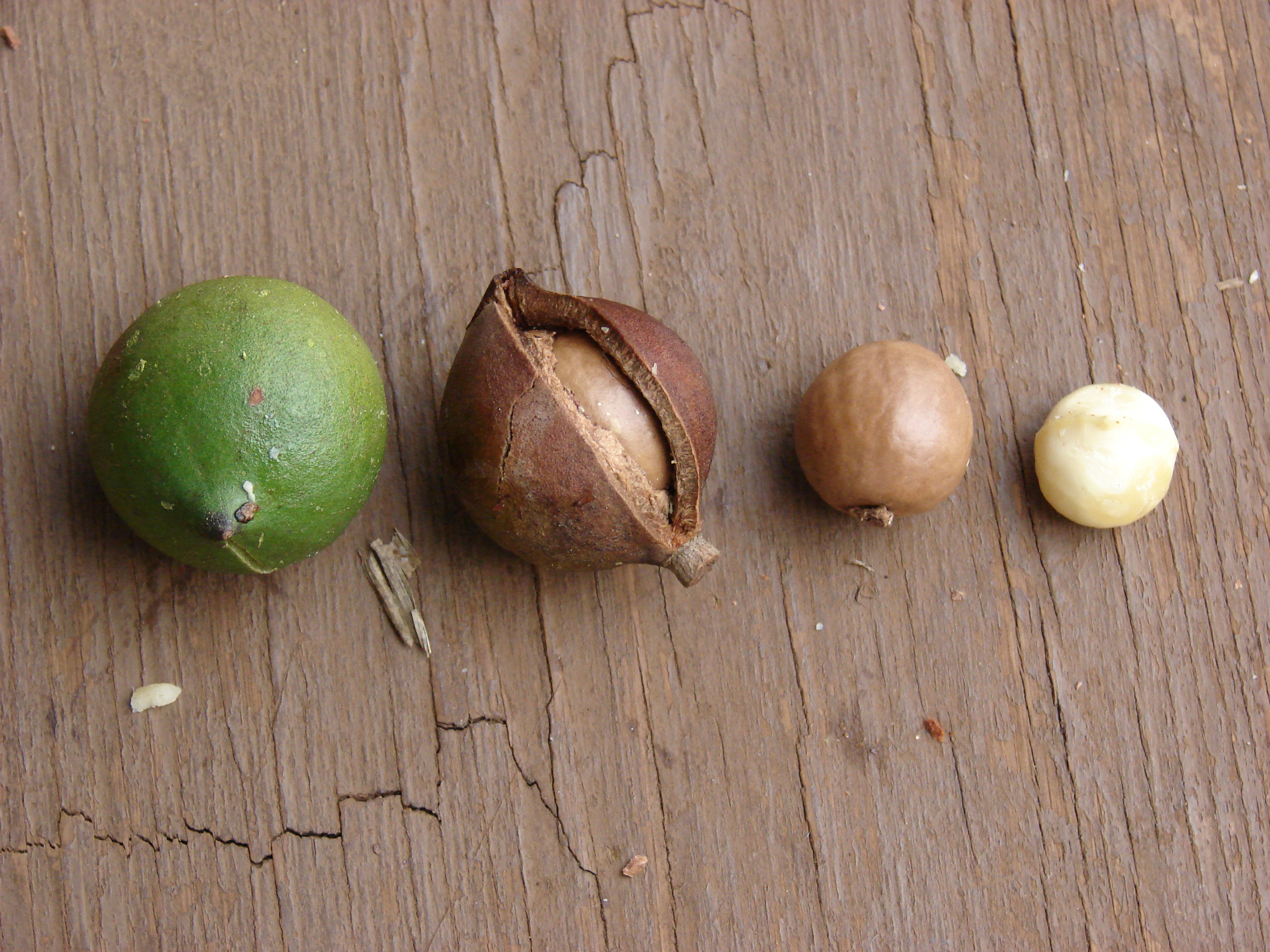 Macadamia integrifolia (different stages). Location: Maui, Makawao